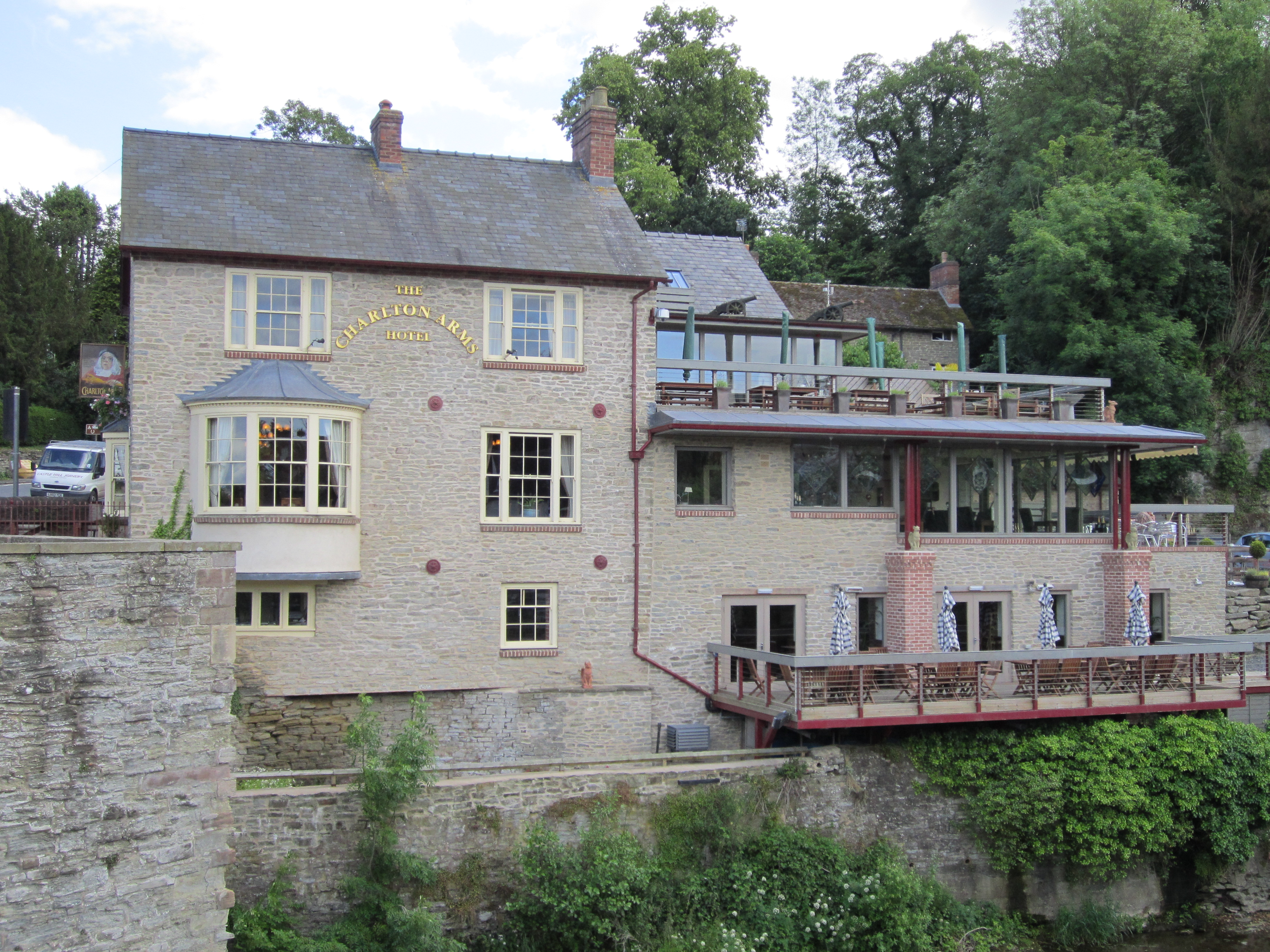 The Charlton Arms Hotel as seen from Ludford Bridge, Ludlow, Shropshire, England.